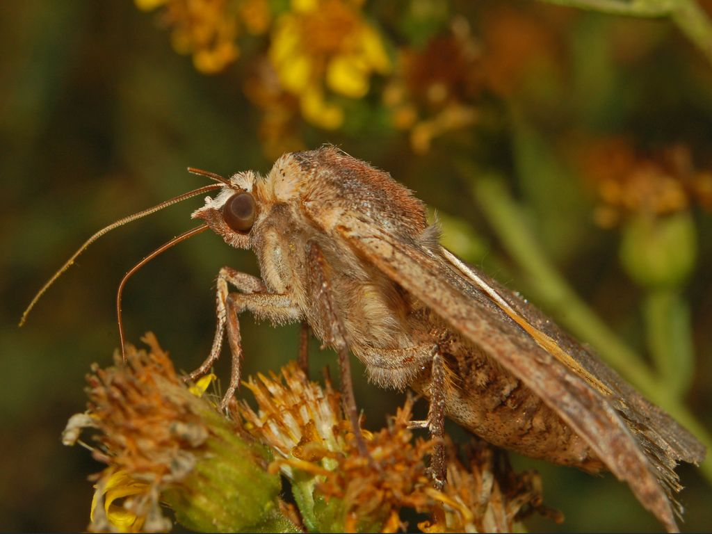 Noctua comes